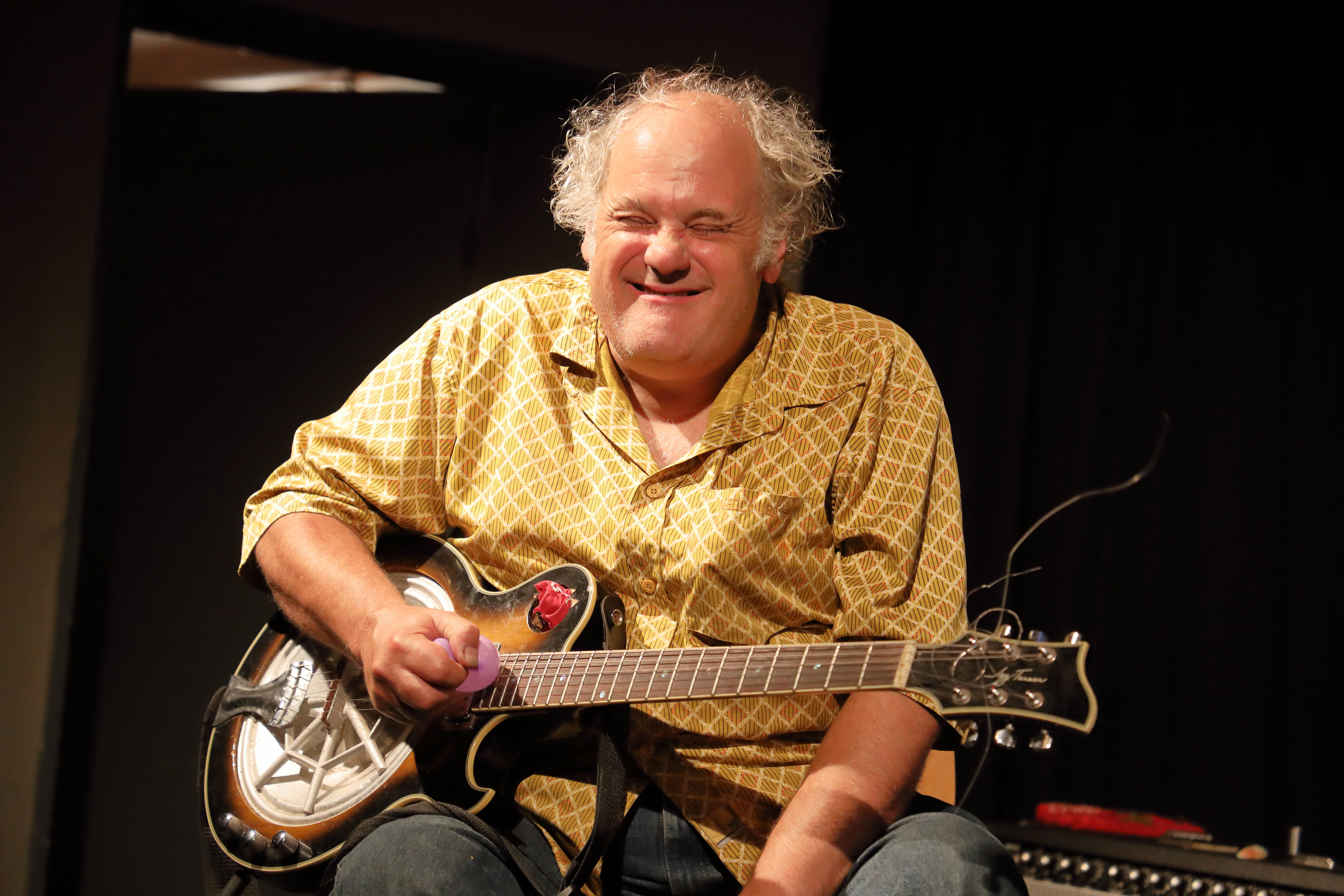 Eugene Chadbourne and Joe Sachse in concert at Club W71 Weikersheim, september 2019.